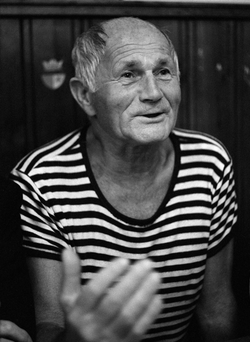 Bohumil Hrabal 1985 Czech writer foto Hana Hamplová